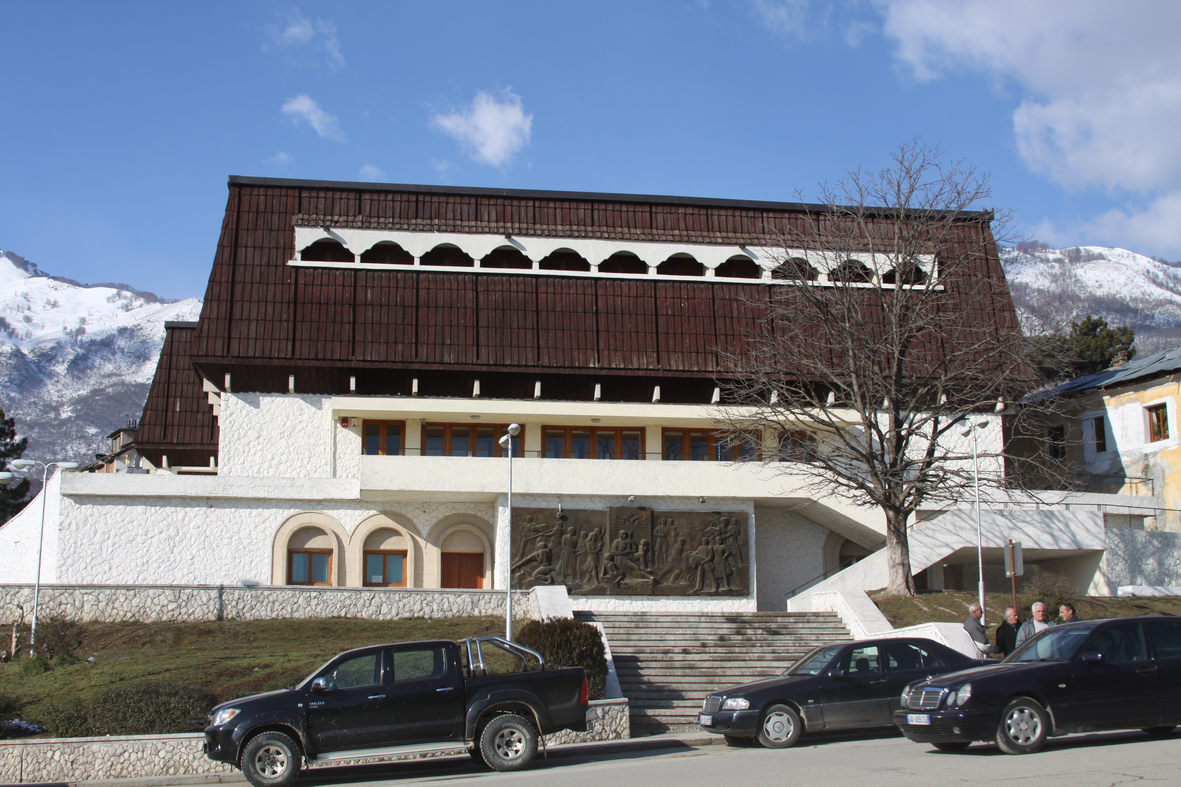 Muzeu i qytetit Bajram Curri nd te cilin ekspozohet kultura e treves tropojes dhe Malesise Gjakoves